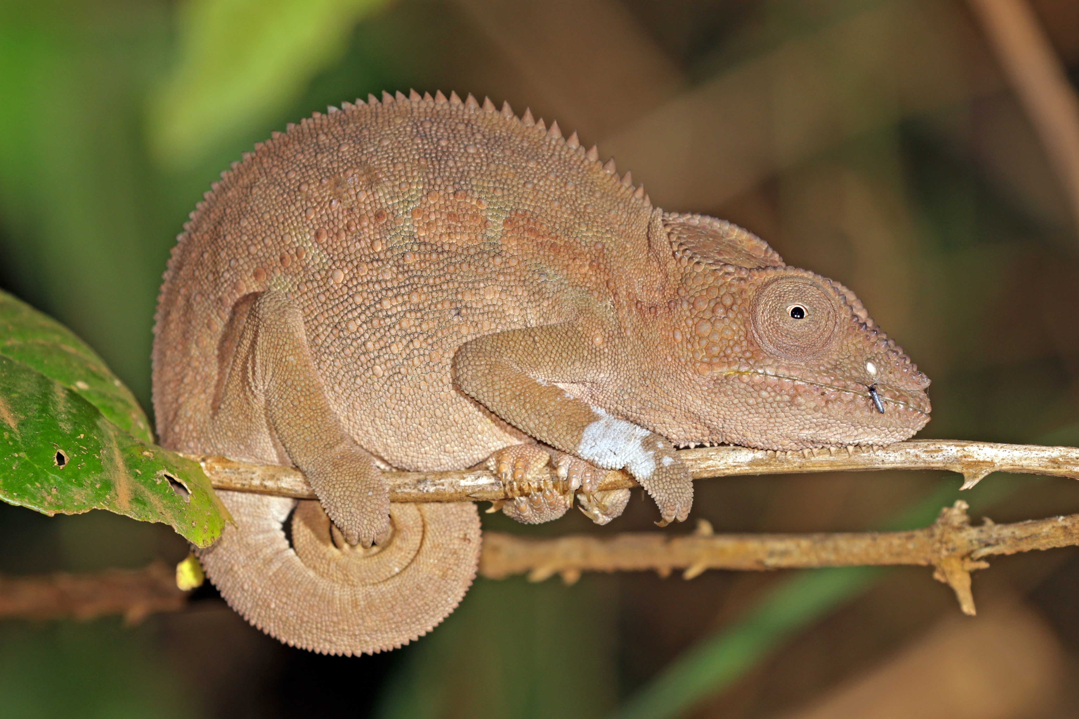 Panther chameleon (Furcifer pardalis) female, Montagne d’Ambre, Madagascar